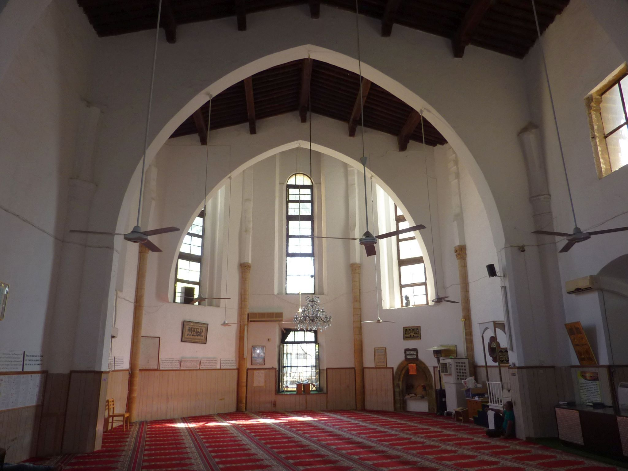 Omeriye Mosque (former Augustinian Church), Nicosia